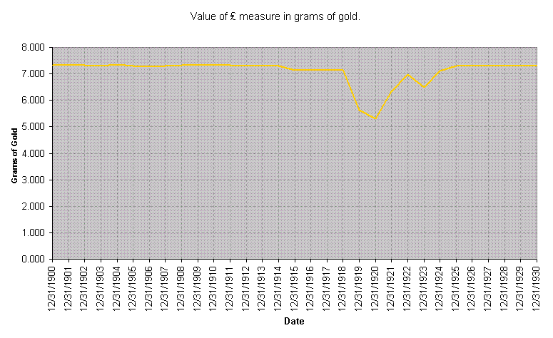 Graph of British Pounds value in gold grams 1900-1930